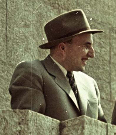 Defence minister general István Bata and prime minister András Hegedüs at the workers procession on the 1st of May, 1955, in Budapest